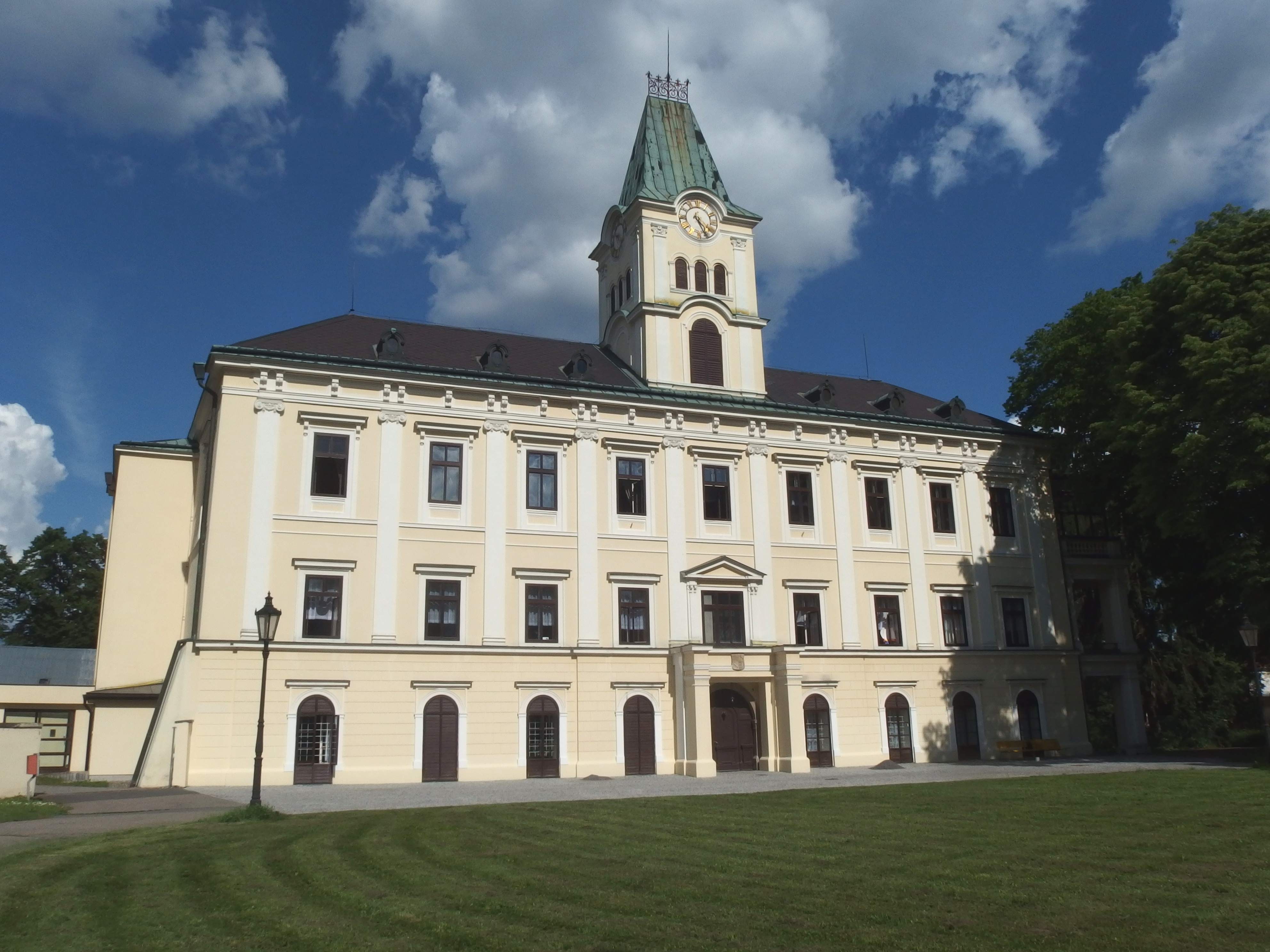 Kvasice, Kroměříž District, Czech Republic.